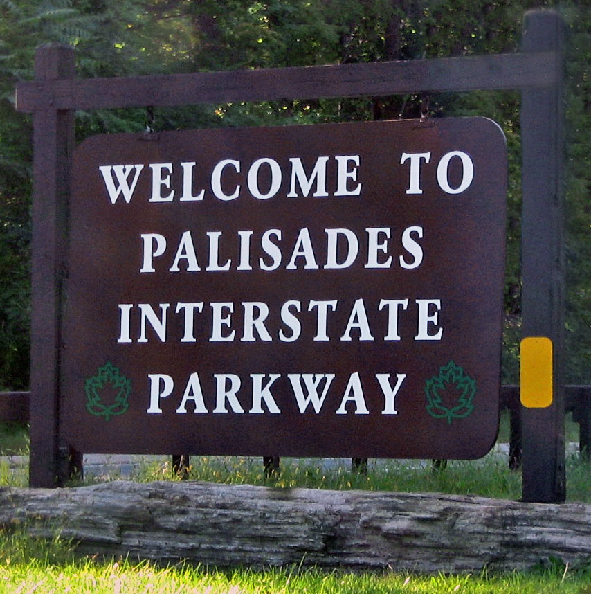 Welcome to the PIP sign posted at its northern terminus in Orange County. Welcome sign on the Palisades Interstate Parkway.